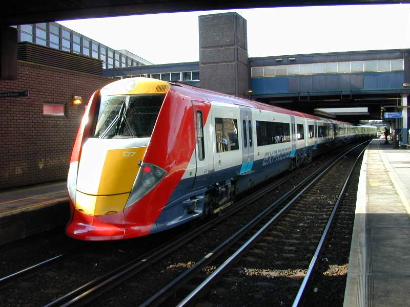 Trains at Gatwick Airport, June 2002.